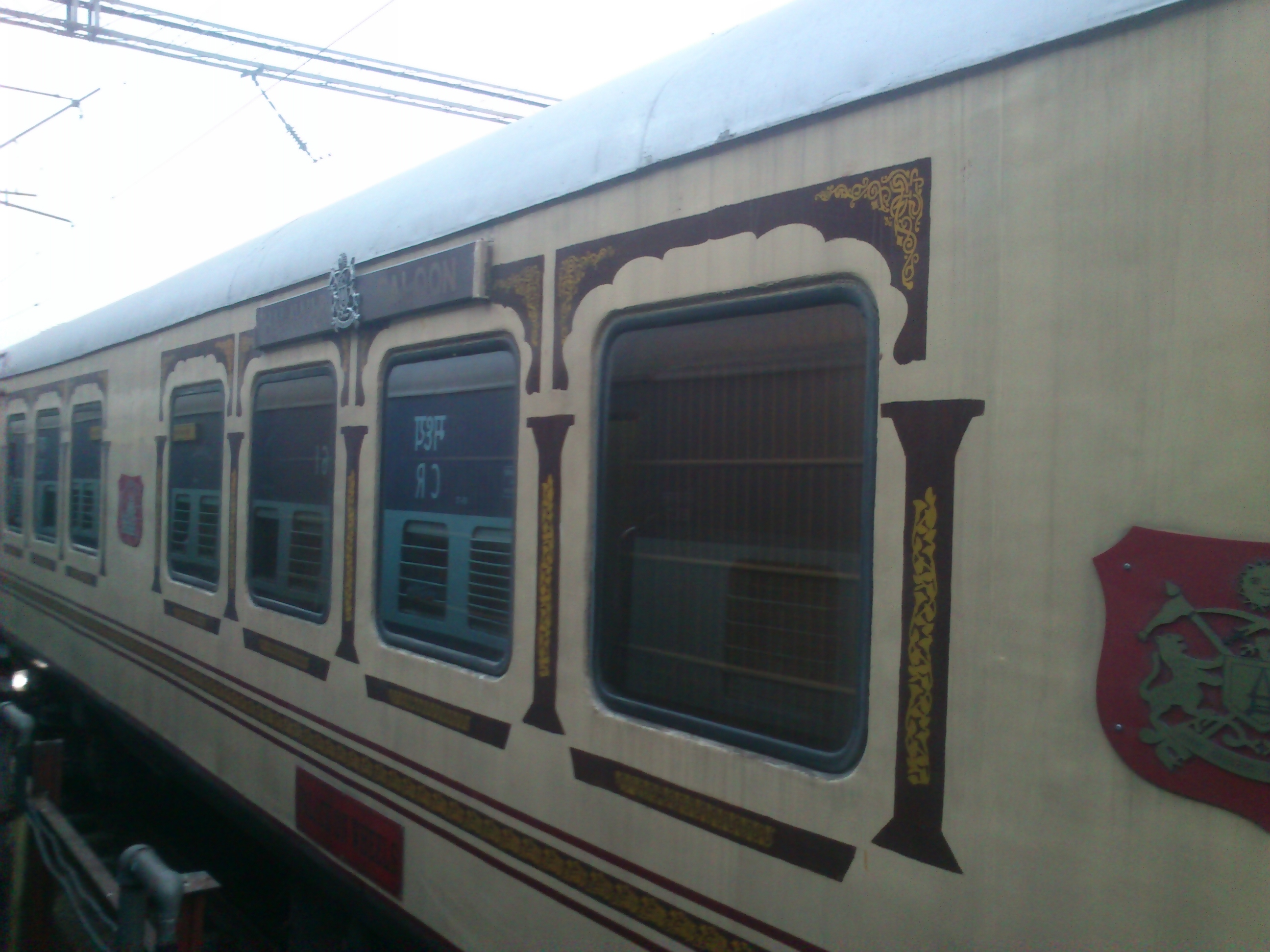 The Palace on Wheels at a halt in Agra